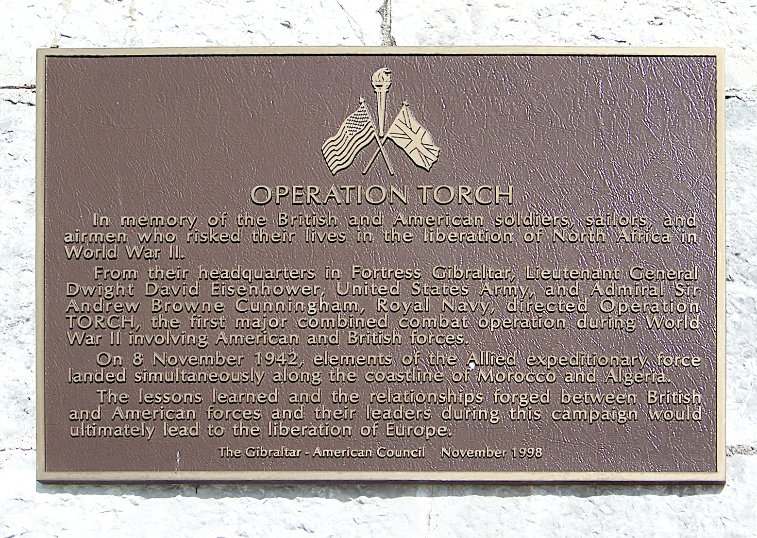 The original file corrected as best I could for perspective, and given equal borders.